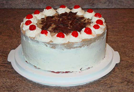 Black Forest gateau is the English name for the southern Schwarzwälder Kirschtorte (literally "Black Forest cherry cake")